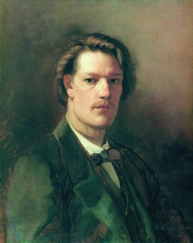 Alexey Korzukhin (1835-1894) Portrait of the Artist Mikhail Peskov